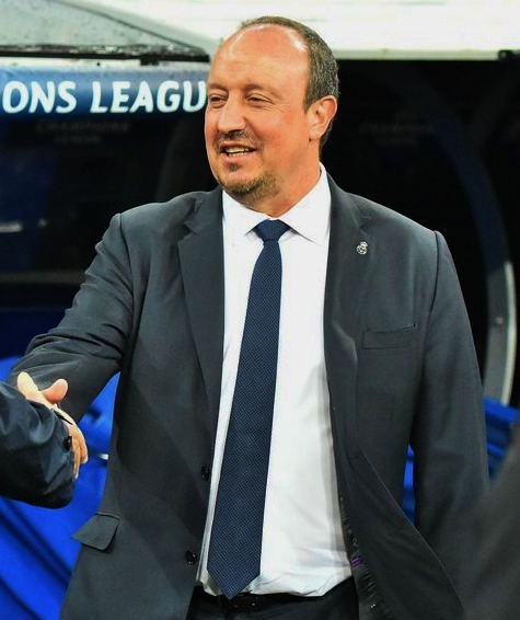 Rafael Benítez